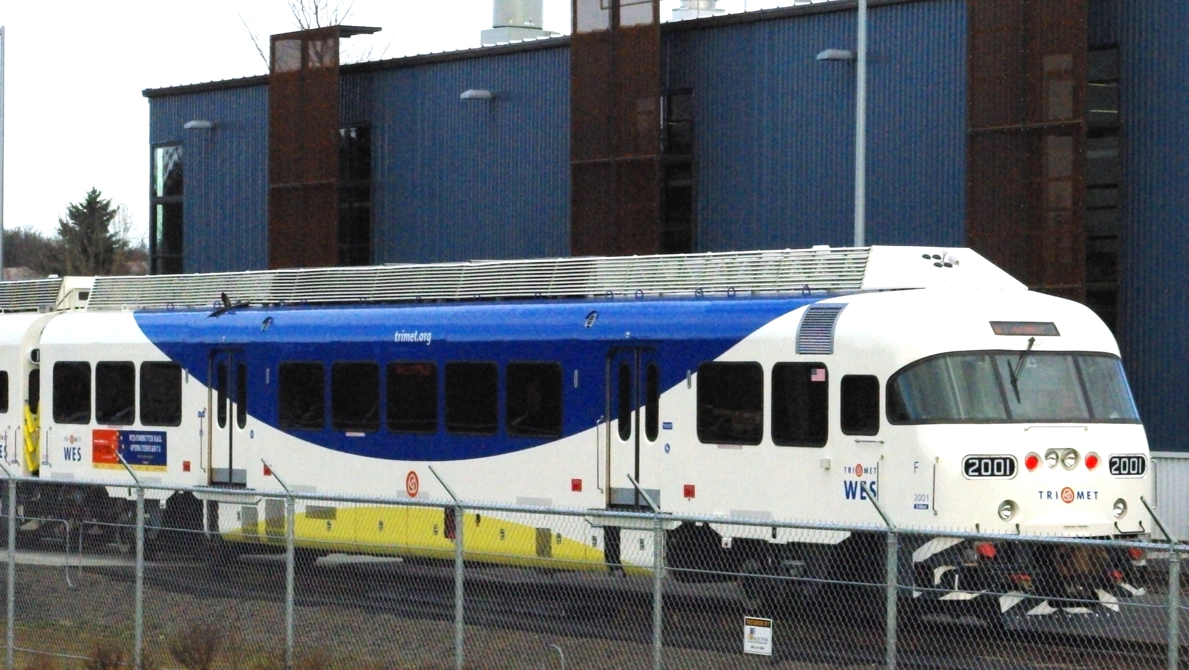 Westside Express Service train at Wilsonville maint. facility.